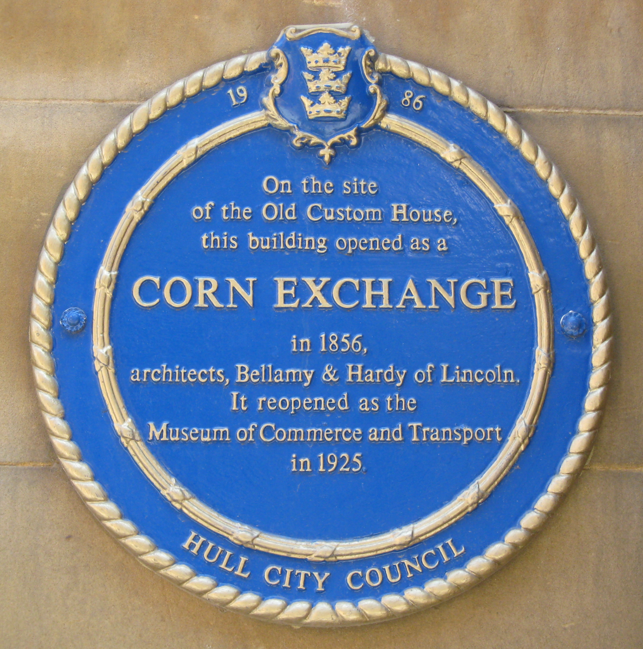 Blue plaque on the former Corn Exchange Building, the Commercial Museum, High Street, Hull.